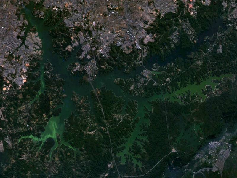 Satellite image of Billings, Sao Paulo, Brazil. Screenshot from NASA World Wind